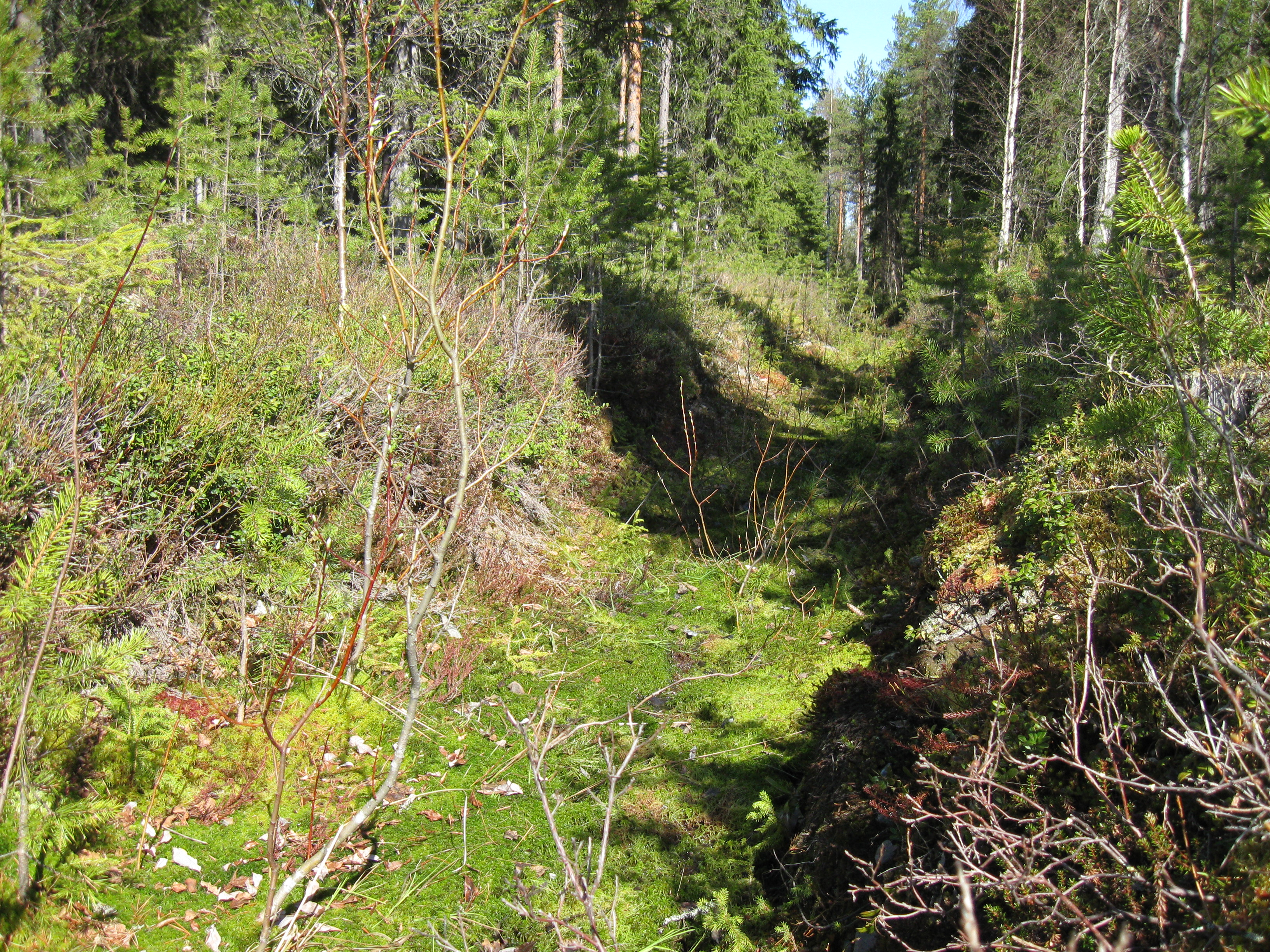 An old unmaintained forest ditch in Utajärvi, Finland.